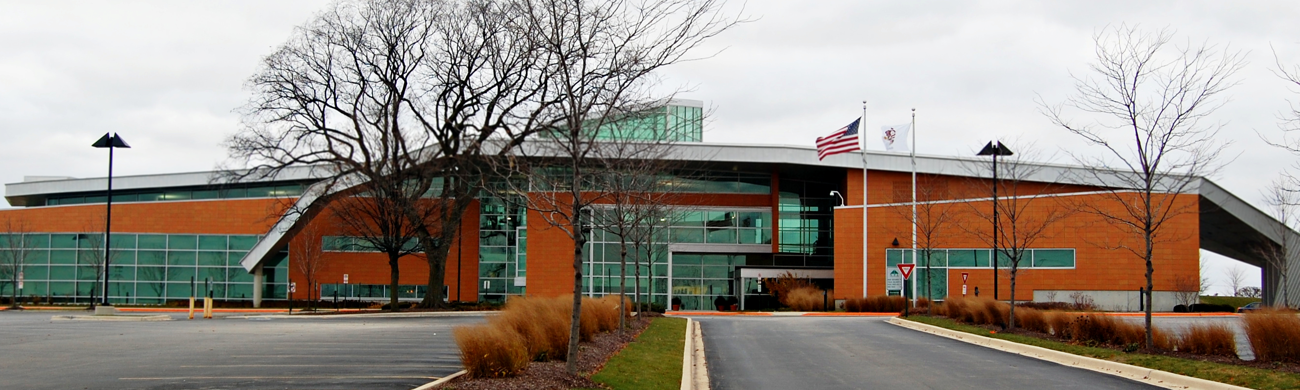 This is a photo I, Clay Spurlock, took of the 95th street library in Naperville, IL. I am releasing it for use under either 2 licenses: either the GFDL or CC-BY-SA-3.0.